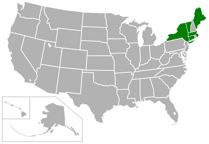 Map I created of the NESCAC school locations.